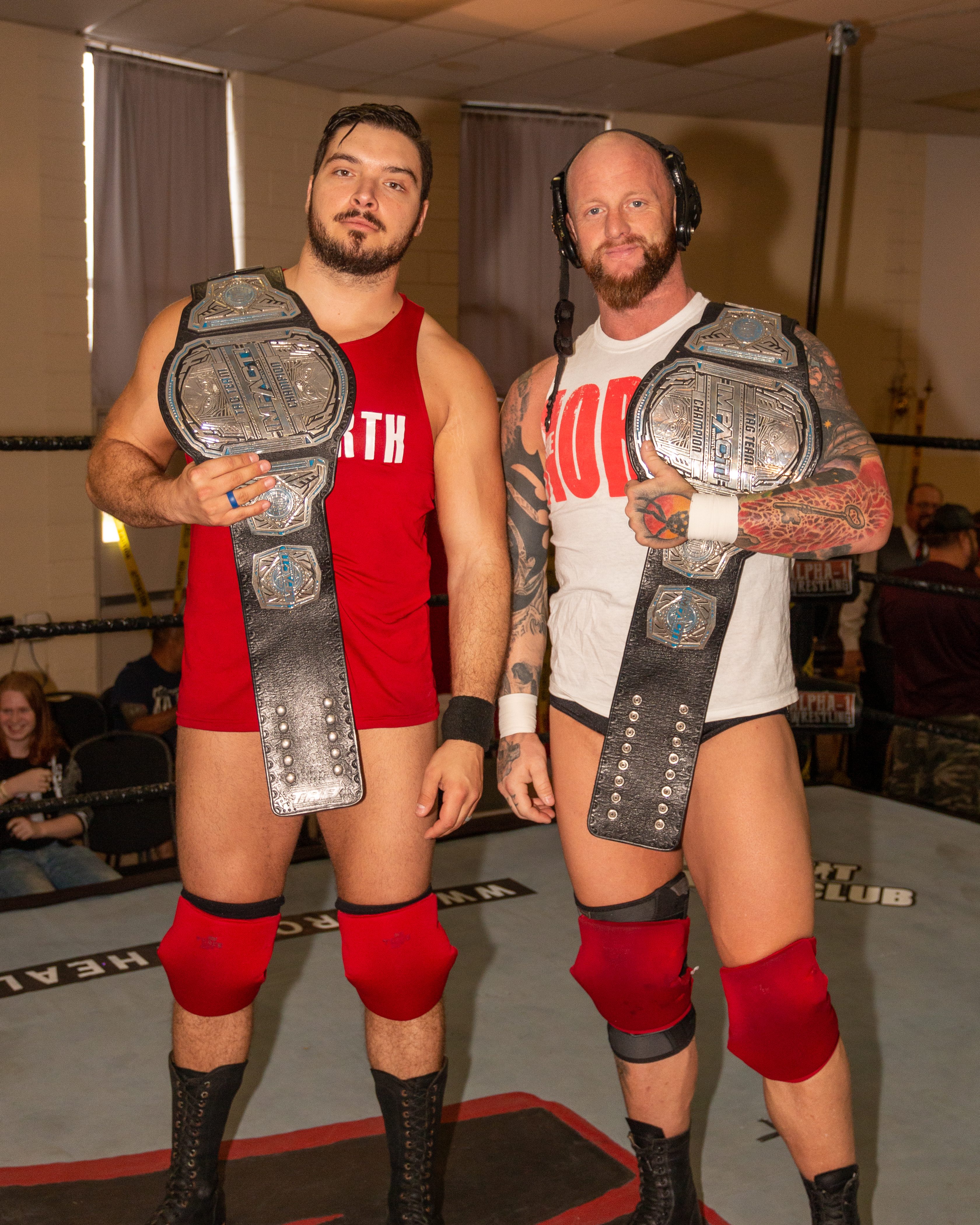 Impact World Tag Team champions The North - Ethan Page (left) and Josh Alexander - posing with the championship belts pre-show at an Alpha-1 Wrestling event in Hamilton, ON